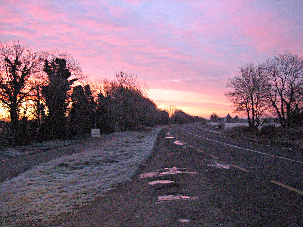 A frosty morning on the N3, between Clonee and Dunshaughlin, Co.Meath, Ireland.